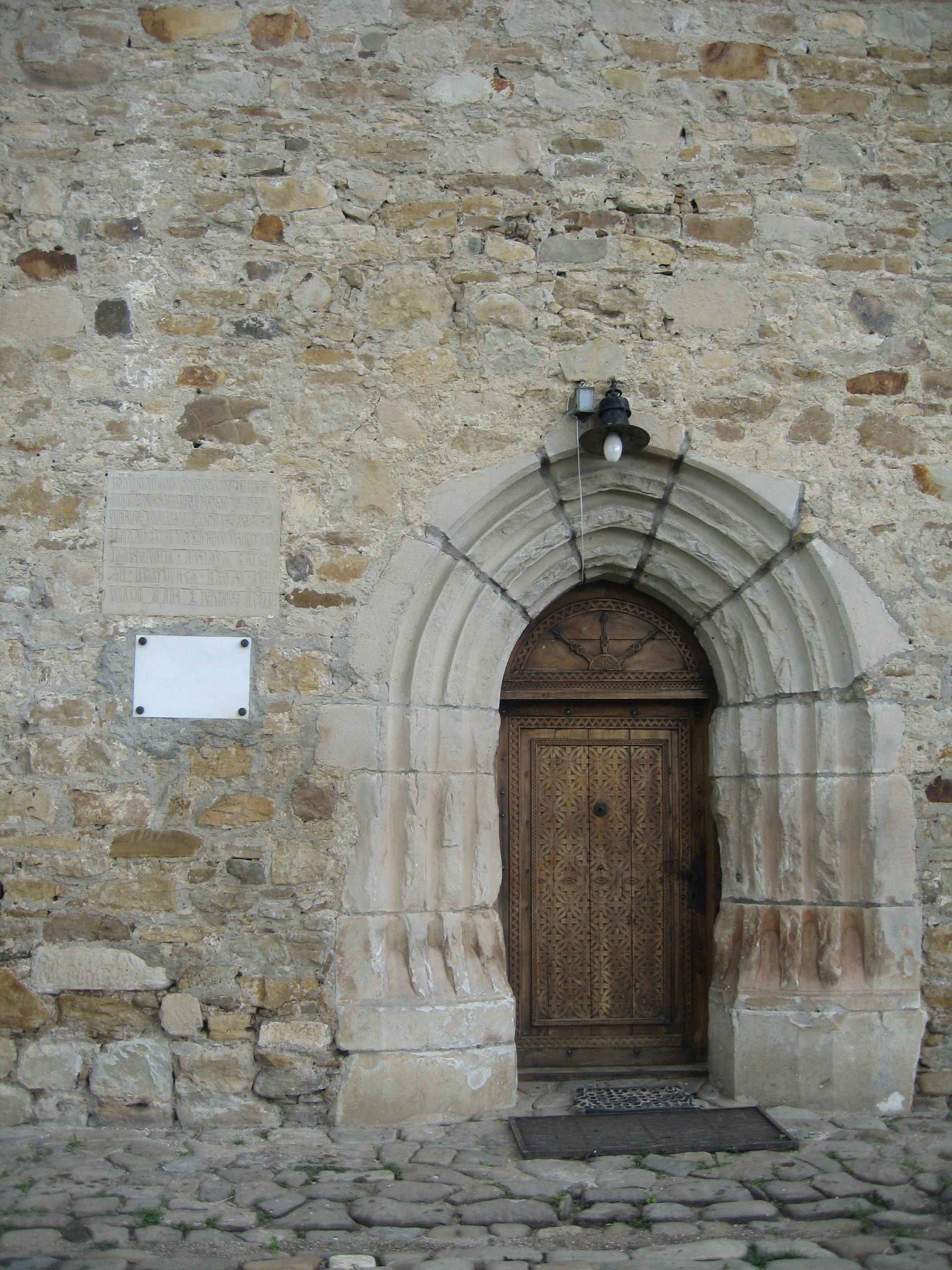 Biserica Înălţarea Sfintei Cruci din Volovăţ